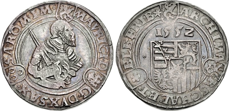 GERMANY, Sachsen-Albertinische Linie (Kurfürstentum und Herzogtum). Moritz. 1547-1553. AR Taler (39mm, 29.07 g, 12h). Freiberg mint. Dated 1552. Armored half-length bust right, holding sword / Coat-of-arms; annulets flanking. K&K 11.4; Schnee 695; Davenport 9787. VF, toned, small flan crack, flatly struck in areas.